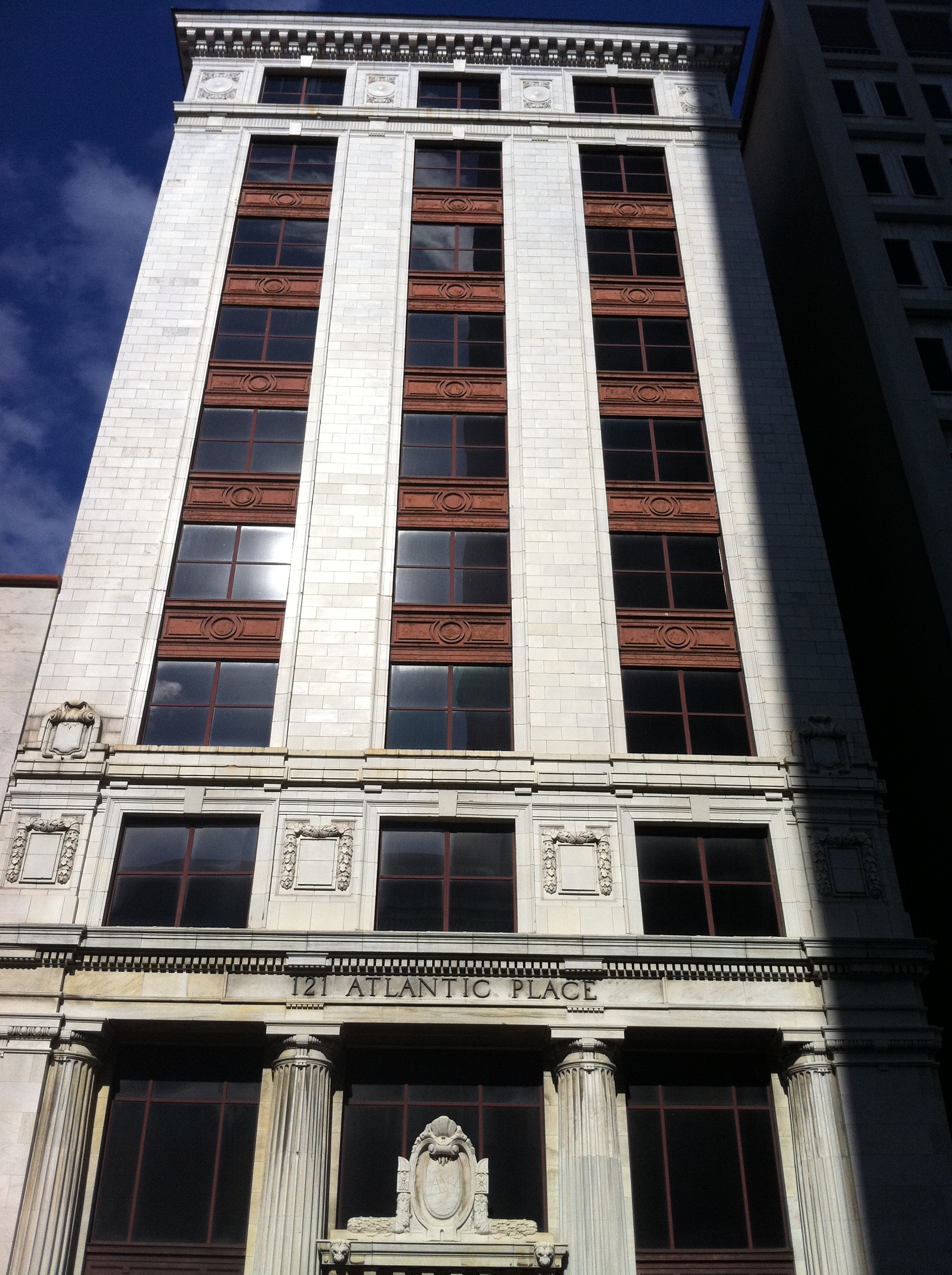 121 Atlantic Place building in downtown Jacksonville, Florida, once Florida's tallest building and the headquarters of Atlantic National Bank